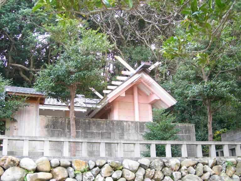 Funakoshi-jinja at Daiou-Funakoshi, Shima city, Mie prefecture Japan.